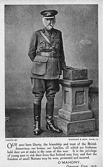 The O'Mahony of Kerry as a recruiter for Irish regiments during World War One